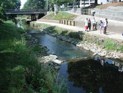 photo of Liz Hair Nature Walk, Charlotte, NC